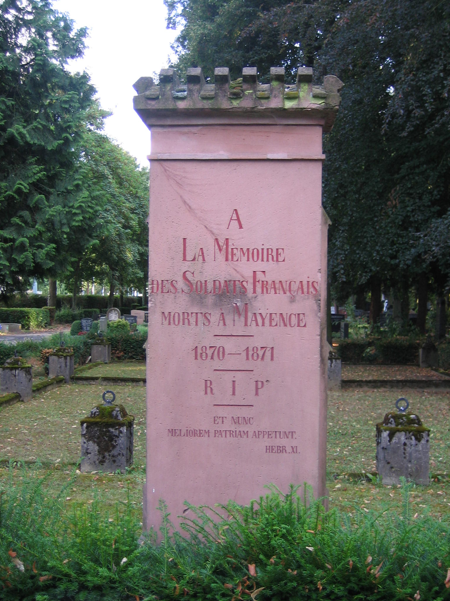 Memorial of the french soldiers died in Mainz during the franco-prussian war.